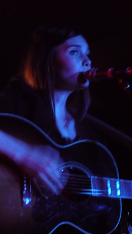 Second support for Tex Perkins Bushfire Benefit at the Ding Dong Lounge, 27 February 2009.